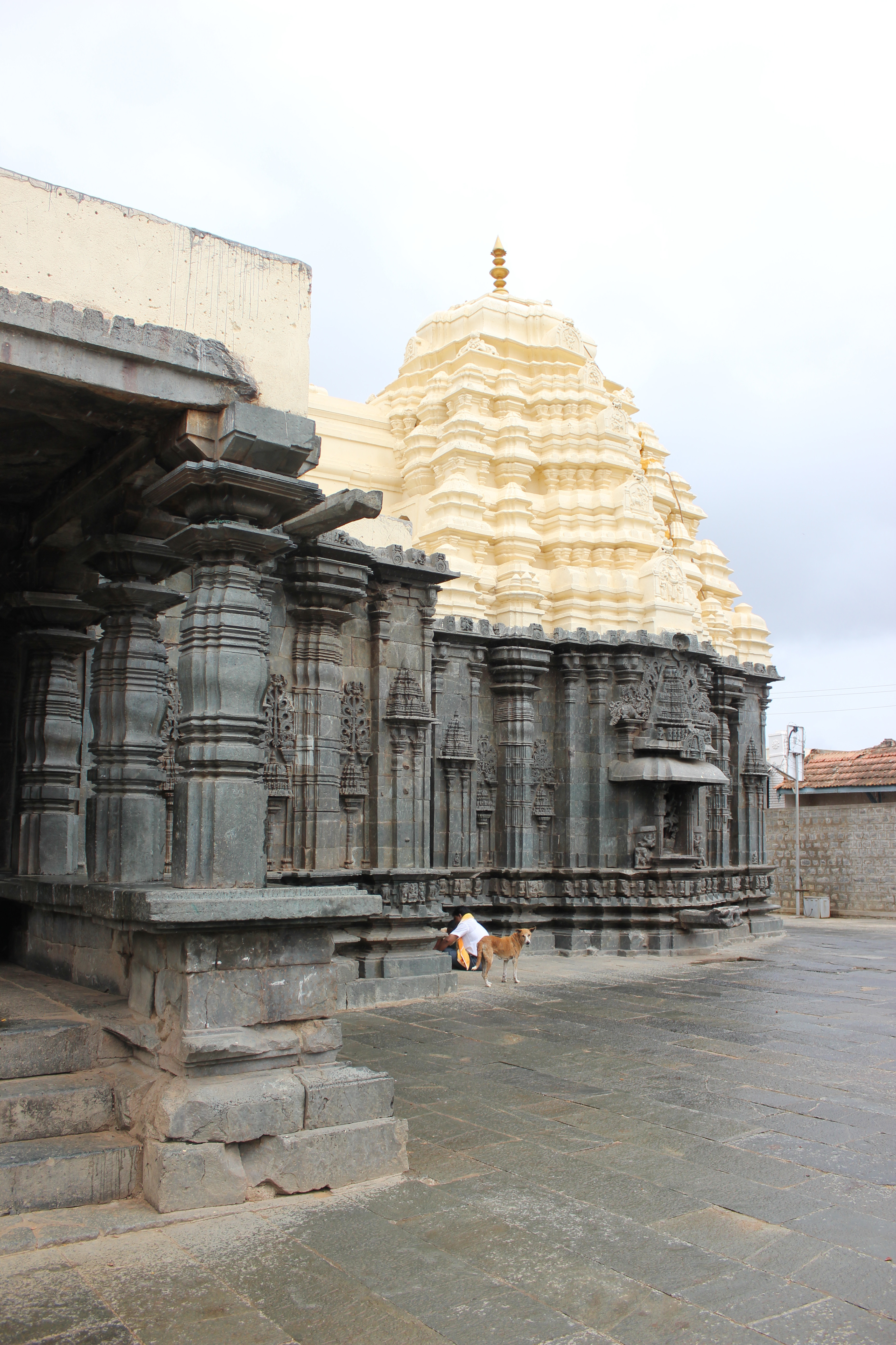 This photograph was taken by me at the Mallikarjuna temple in Kuruvatti (also spelt Kuruvathi), Karnataka state, India. The temple was constructed in the 11th century during the rule of the Western (Kalyani) Chalukyas.